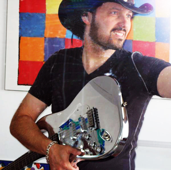 Denny DeMarchi